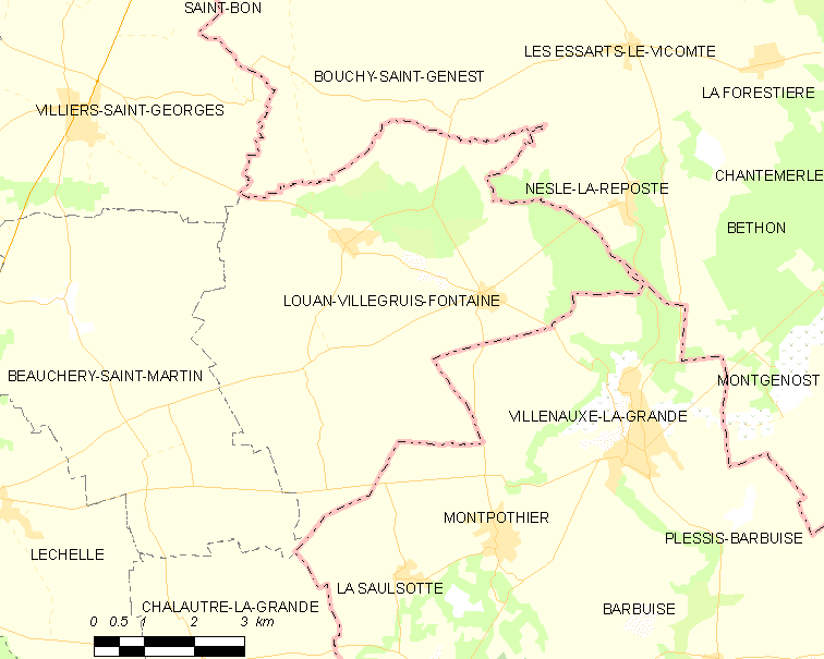 Map of French municipality Louan-Villegruis-Fontaine